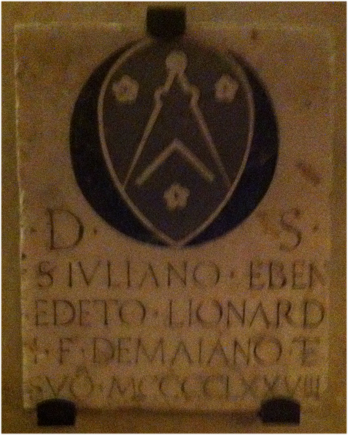 Tombstone of Giuliano and Benedetto da Maiano with coat of arms (cript of Saint Lawrence, Florence, 1468)